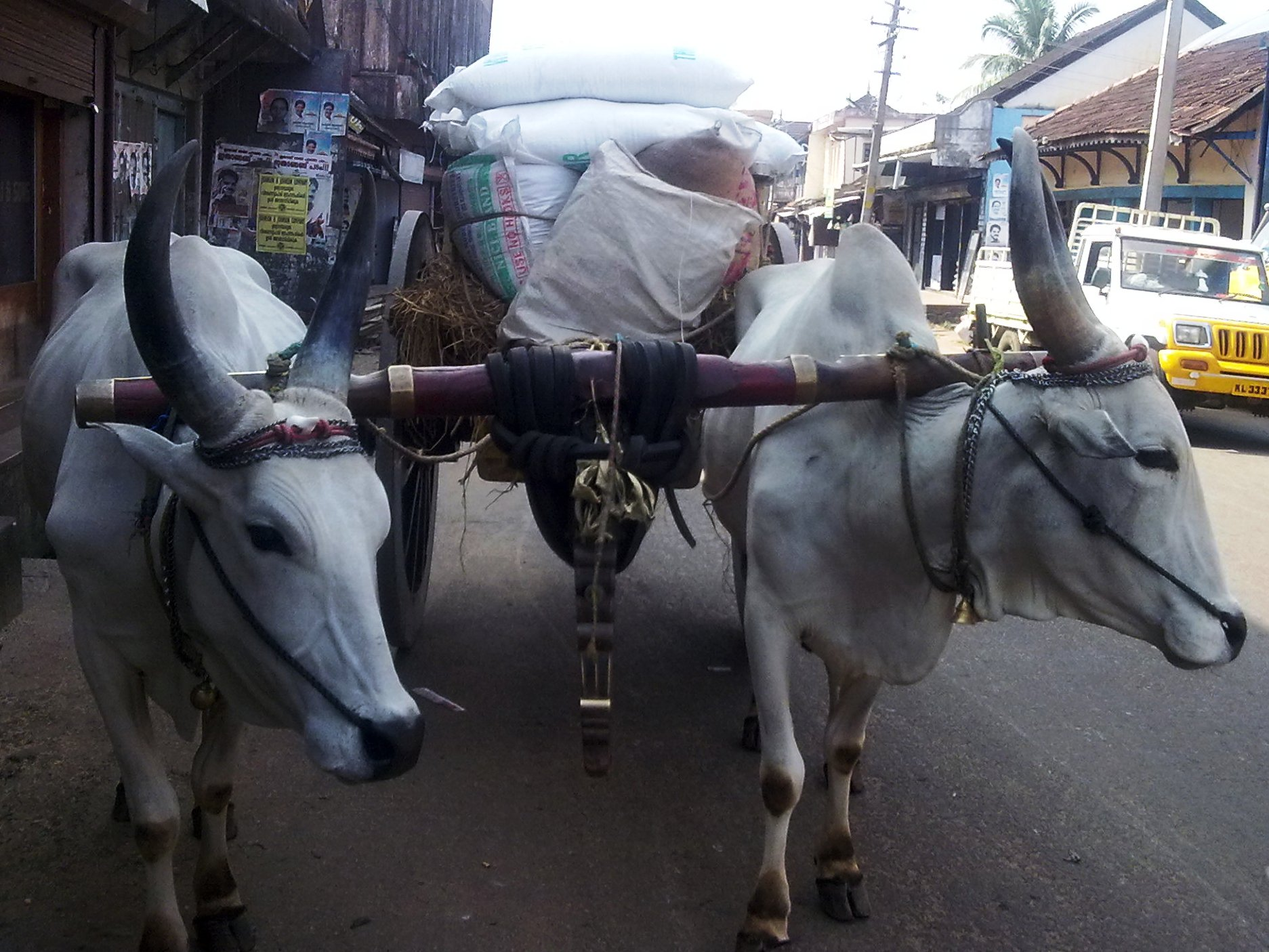 Bullock cart Tangalle